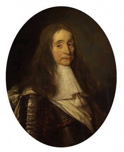 Unknown man, formerly known as Montague Bertie, 2nd Earl of Lindsey